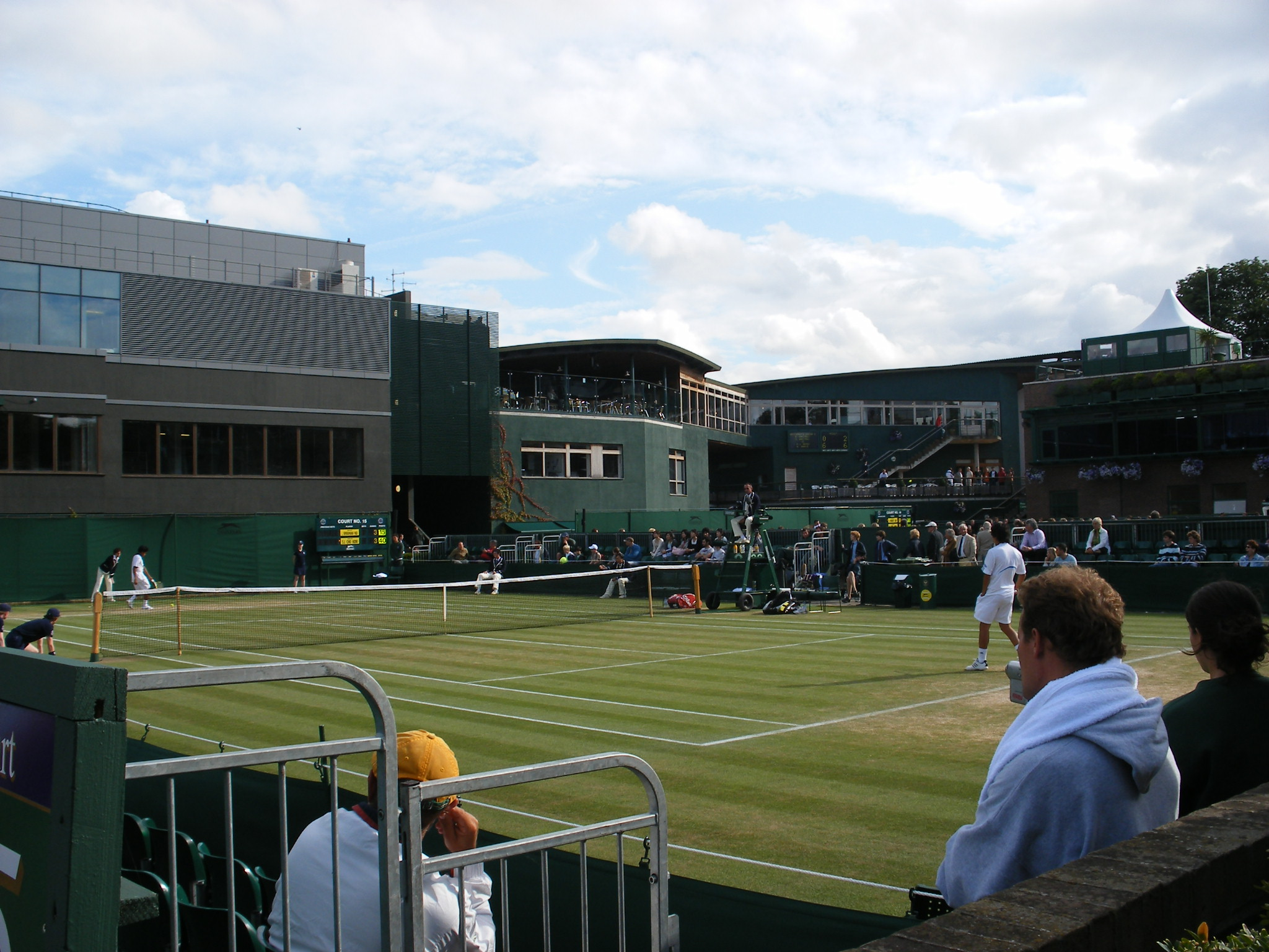 Court 15, Wimbledon